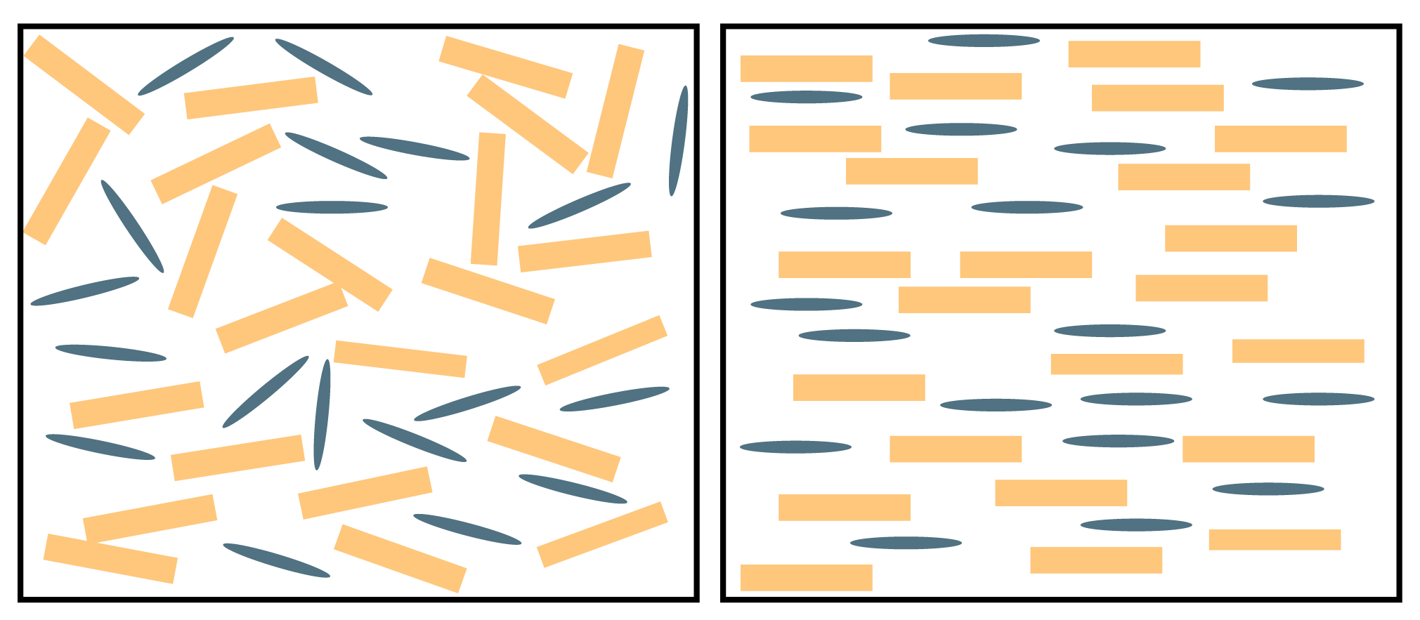 How metamorphosis of rock changes alignment of minerals